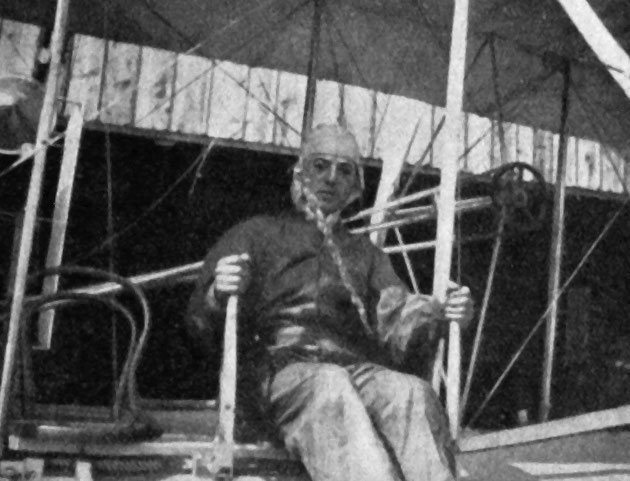 Colin Defries in the pilot's seat of his Wright machine. This shows the way in which Mr. Defries covered one of the supporting wires to prevent himself from getting damaged in the event of an accident.